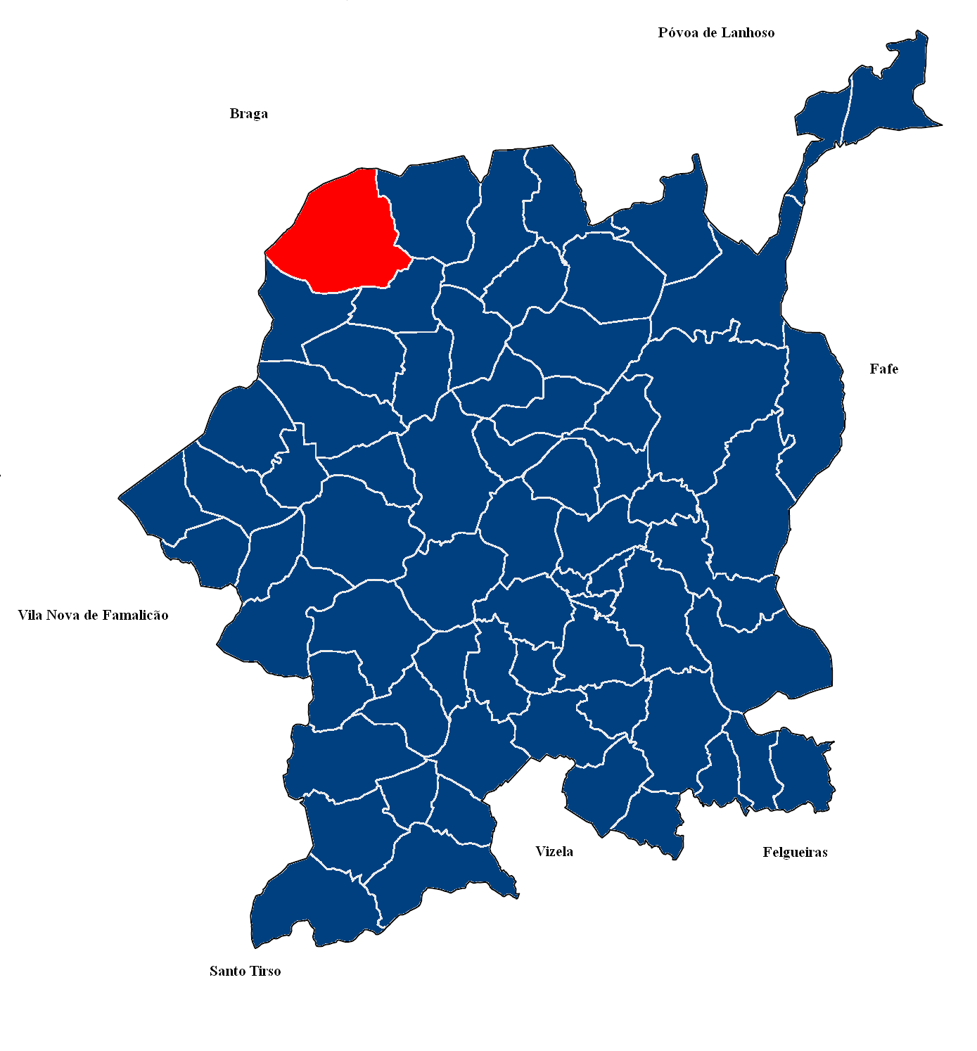 Map of Longos parish, Guimarães Municipality, Portugal